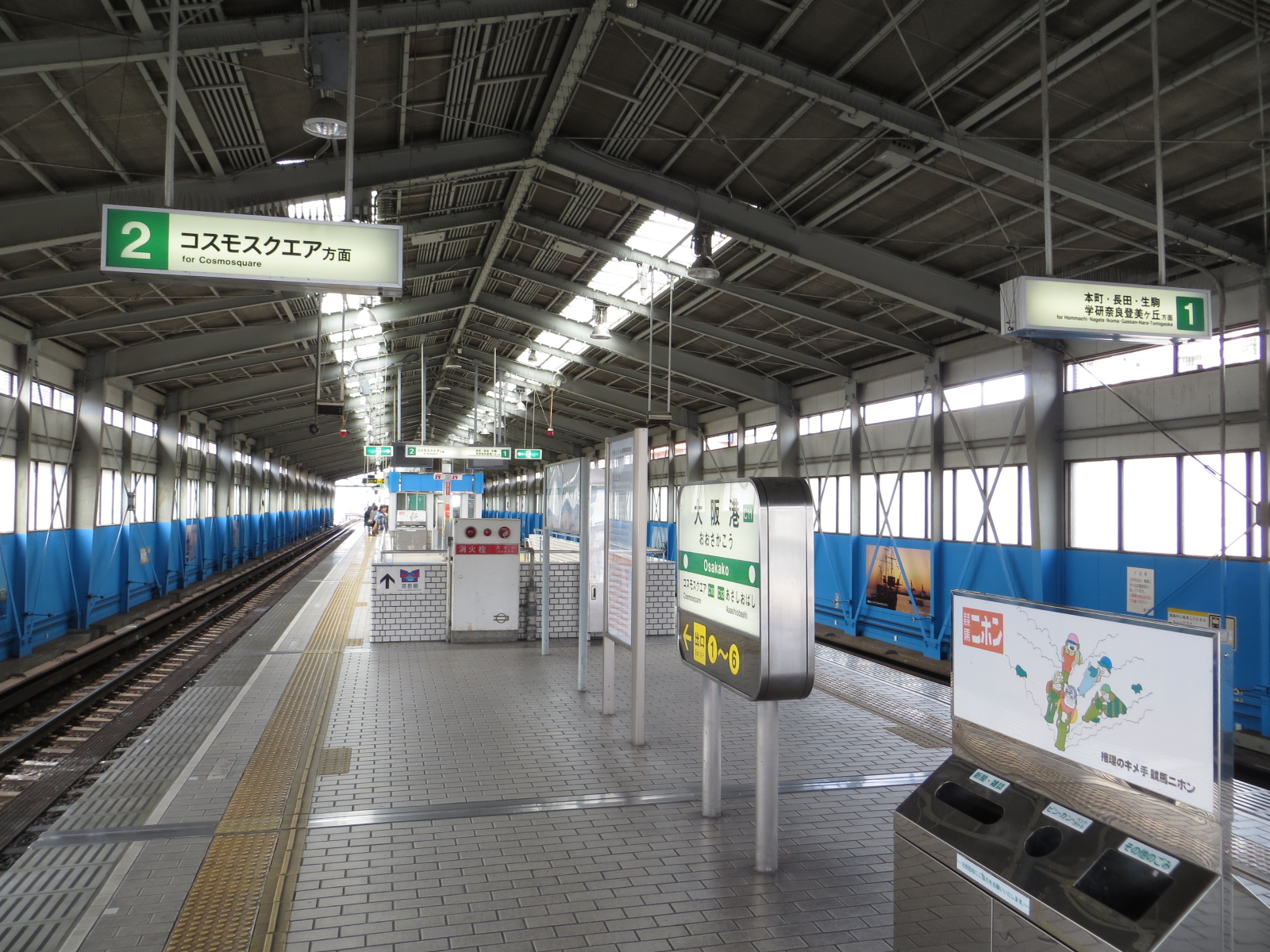 Platoform from Ōsakakō Station.